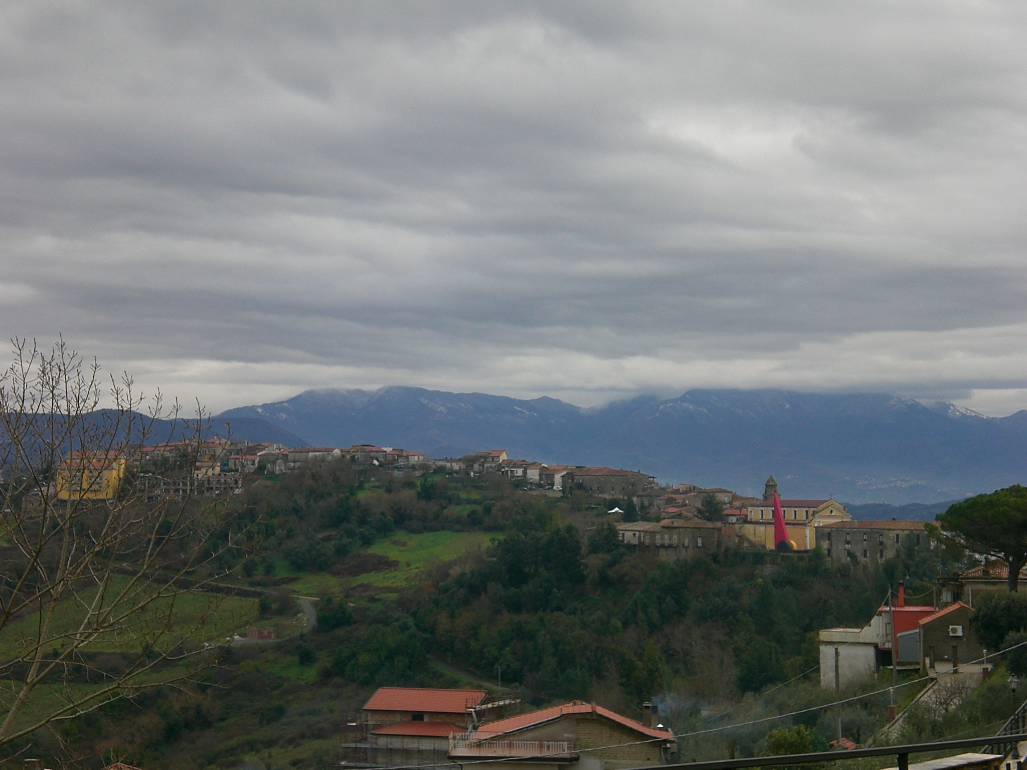 View of Rutino.